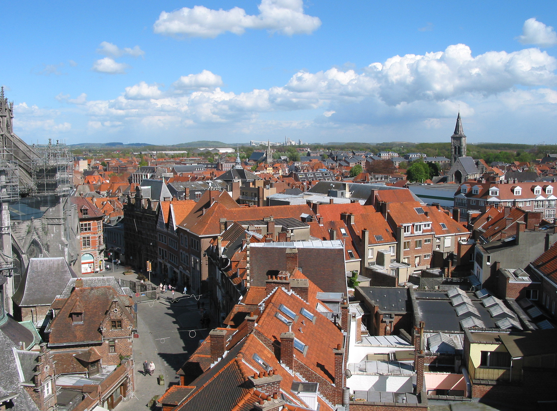 Tournai (Belgium), view on the Nort-Eastern part of the city, on the extreme part of the Notre-Dame cathedral (XIIIth century) and on the St. Nicolas church (XII-XVth century).